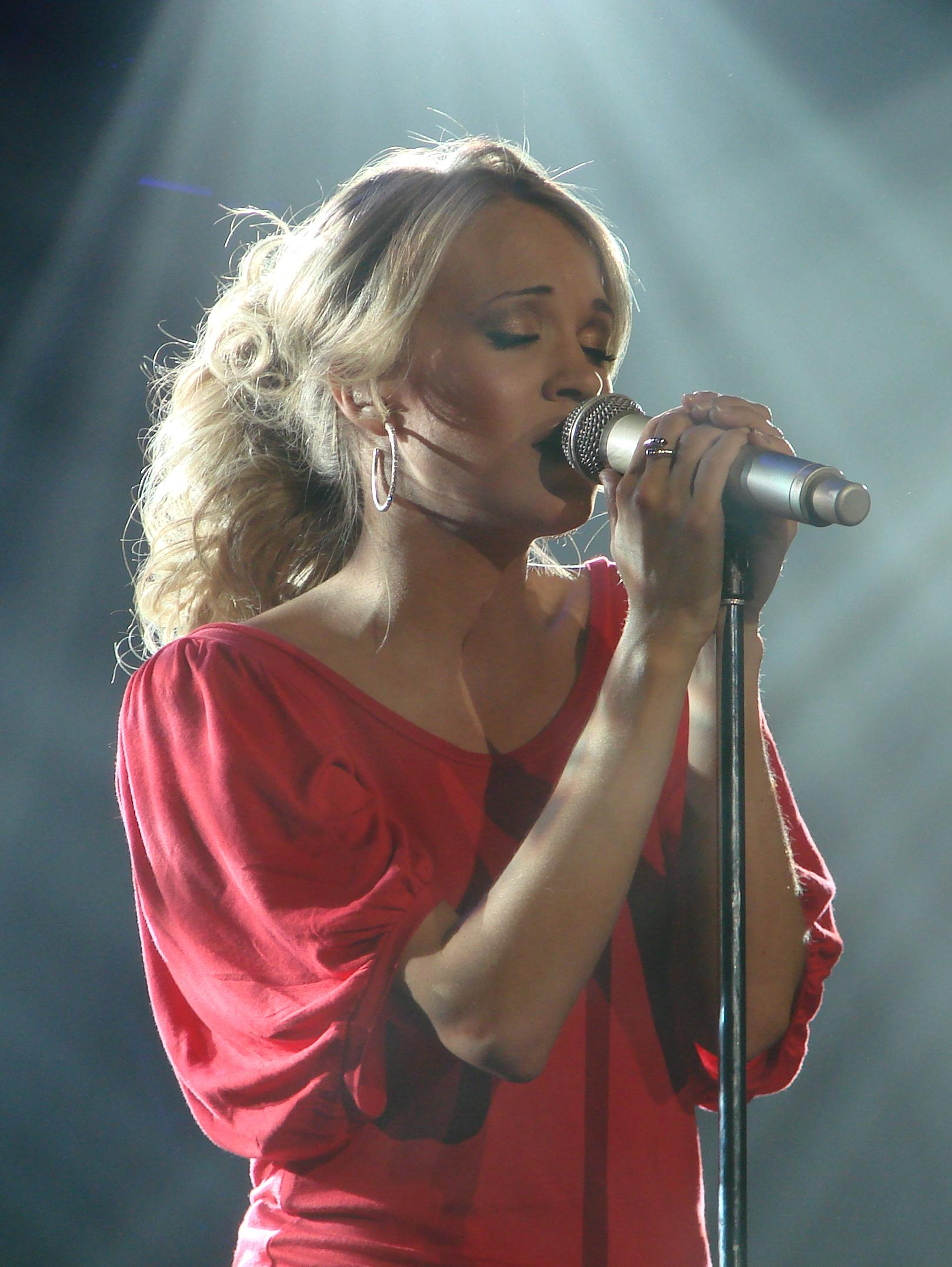 Carrie Underwood performing at the World Arena in Colorado Springs, ColoradoCarrie Underwood